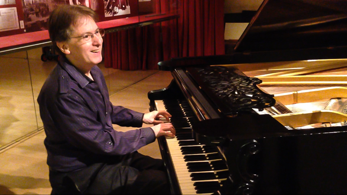 Robert D. Levin playing the Rönisch piano in the Music Museum of Barcelona (Museu de la Música de Barcelona)